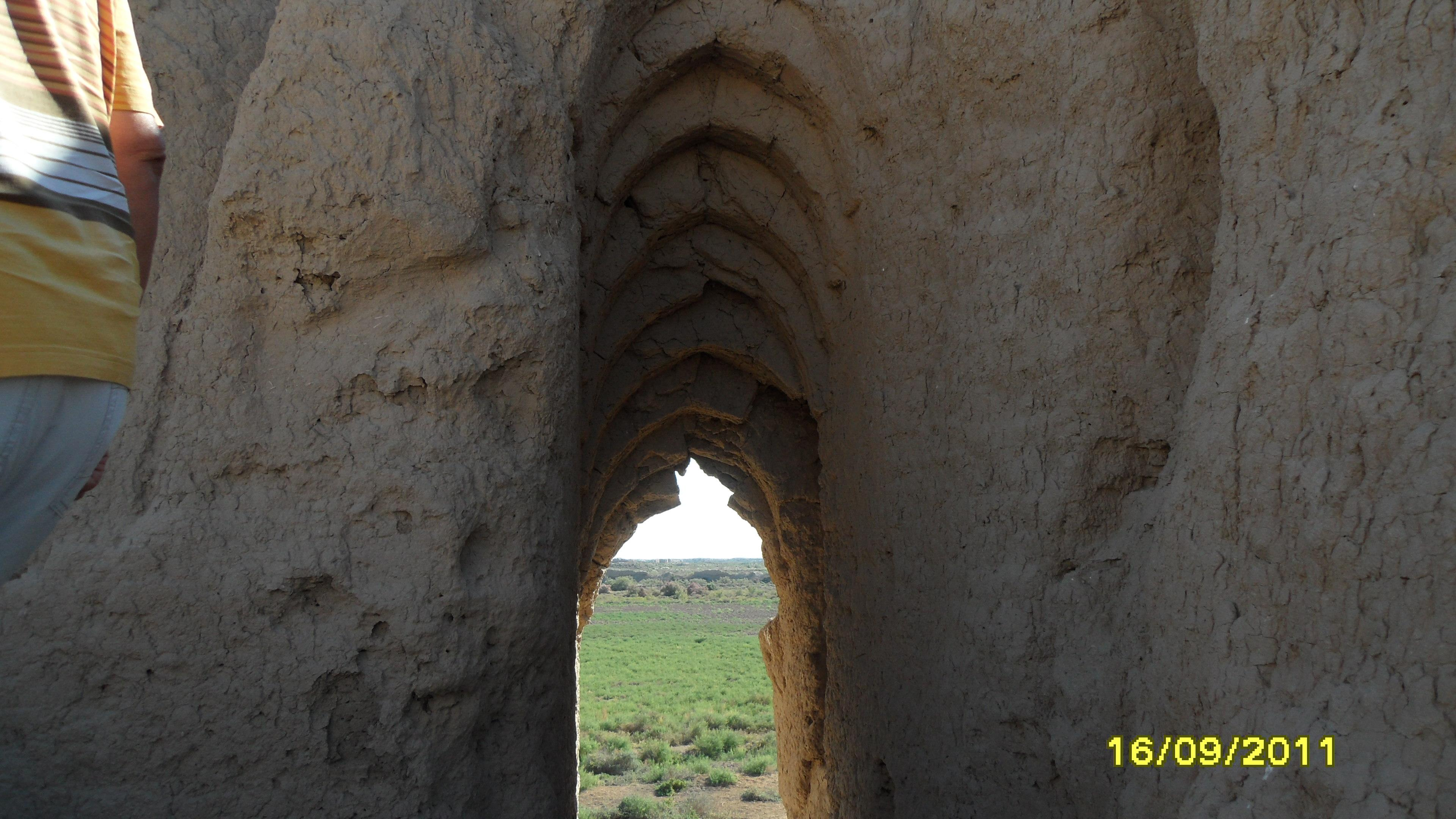 MervTurkmenistan Little Kyz Kala